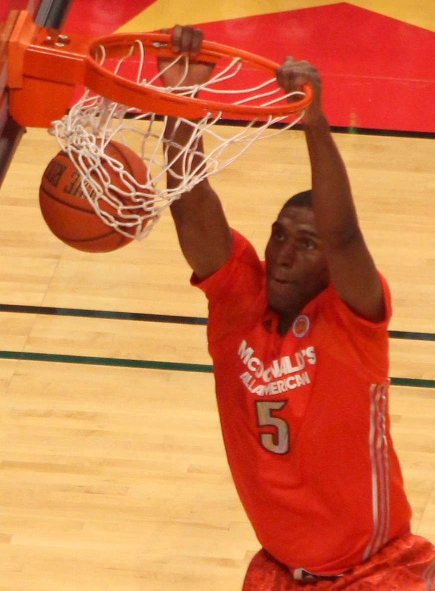 Kevon Looney dunking in the w:2014 McDonald's All-American Boys Game